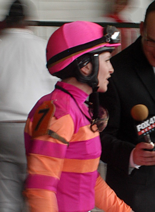 Pants on Fire's jockey, Anna Rose "Rosie" Napravnik, gives an interview after Kentucky Derby on May 7, 2011. Pants on Fire finished 9th, the best finish in the Kentucky Derby for a female jockey as of 2011.